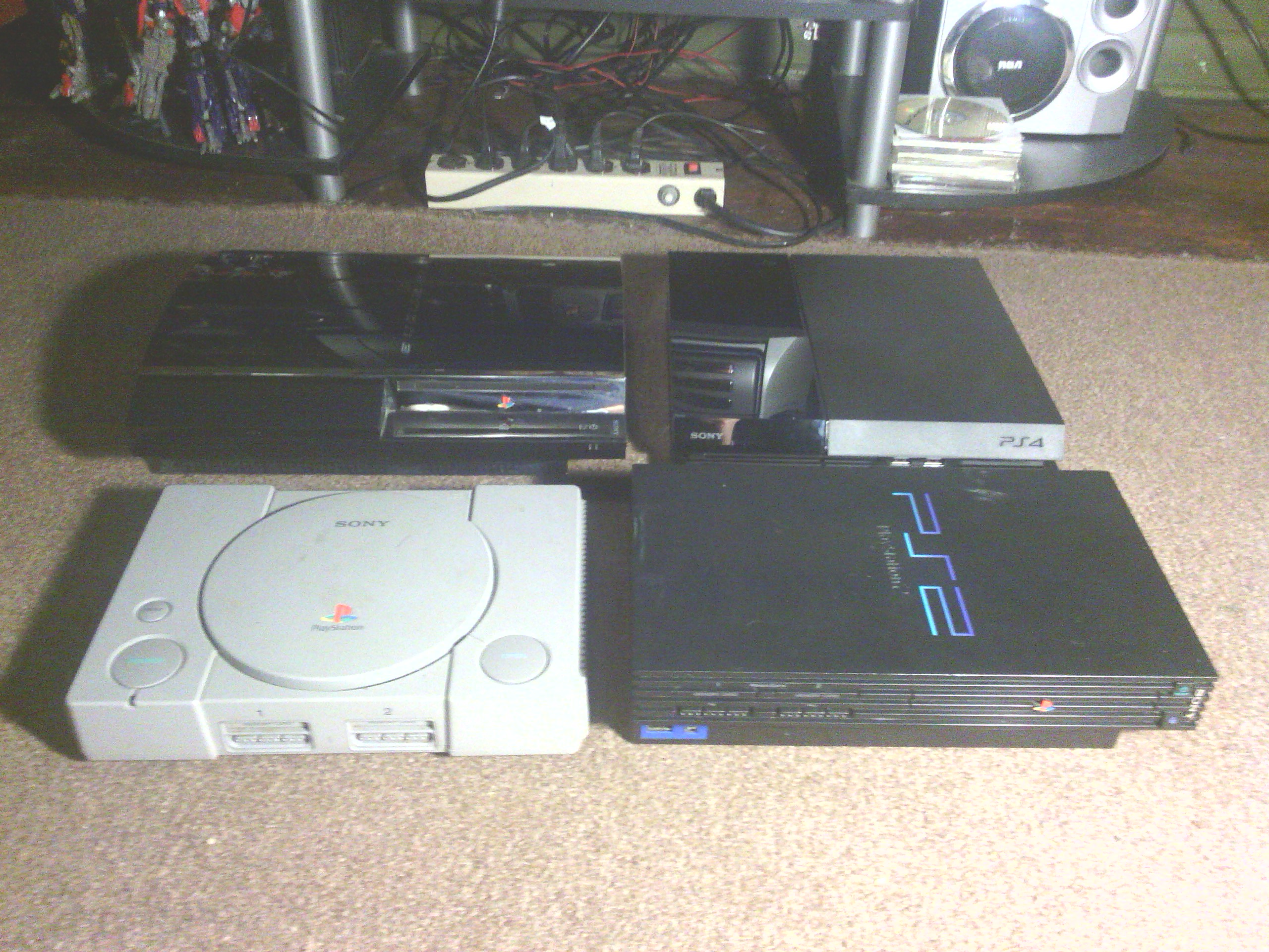 The PlayStation, PlayStation 2, PlayStation 3, and PlayStation 4 consoles, original versions.